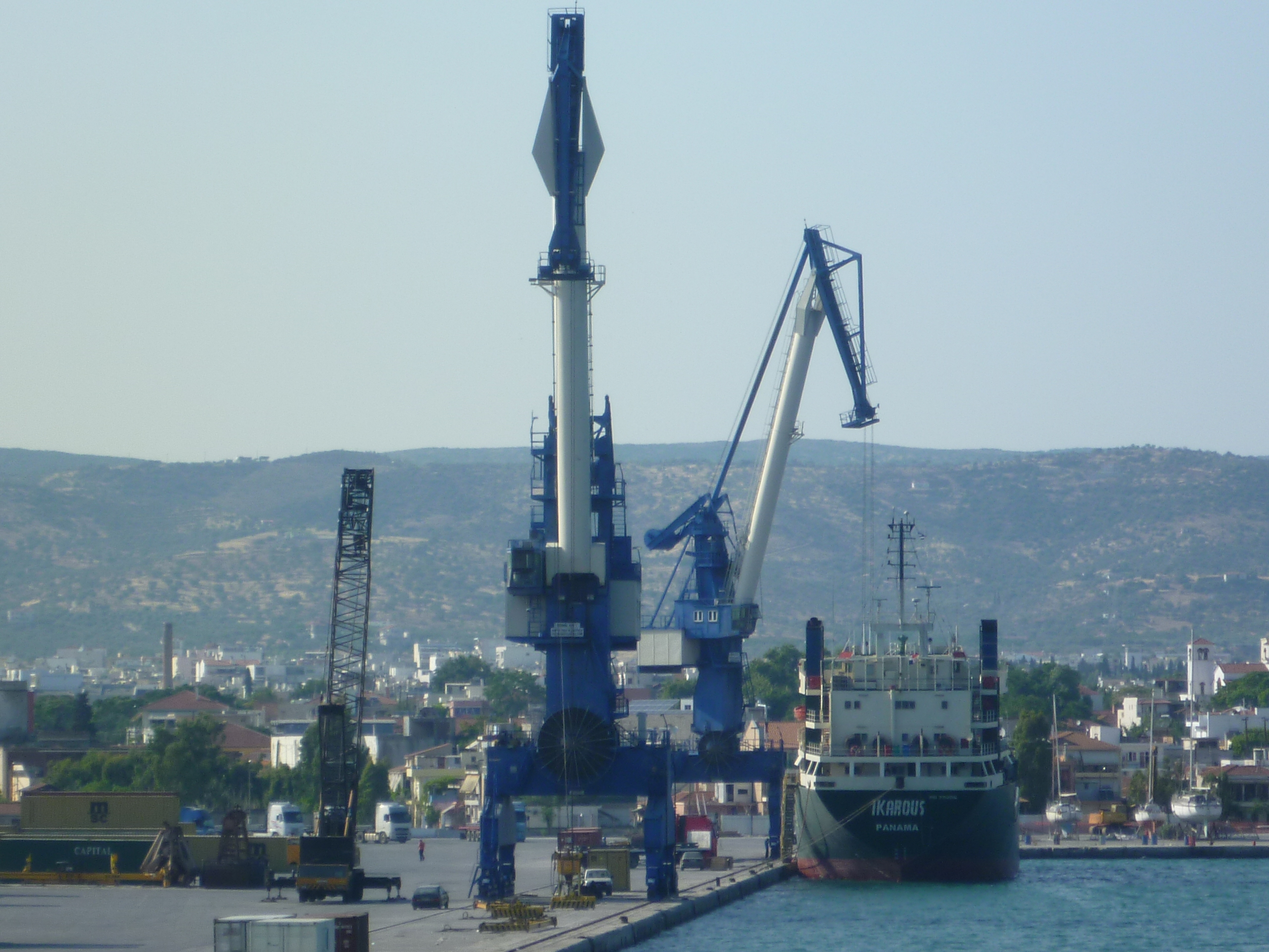 Cargo ship Ikarous in Volos, Greece, 7 july 2011